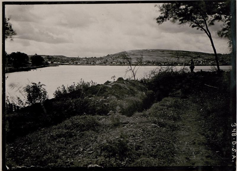 See an der Zlota Lipa mit russischen Schützengräben in Brzeżany